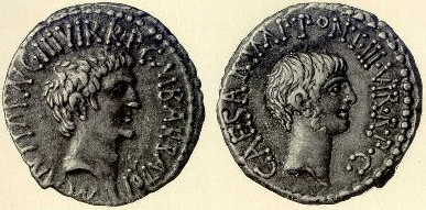 Enlarged from the original owned by G. N. Olcott. A silver denarius of the Second Triumvirate. The portrait at the right (obverse) is of Caesar Octavianus (Augustus), with a slight beard to indicate mourning, and at the left (reverse), of Mark Antony. The date is 41 B.C.